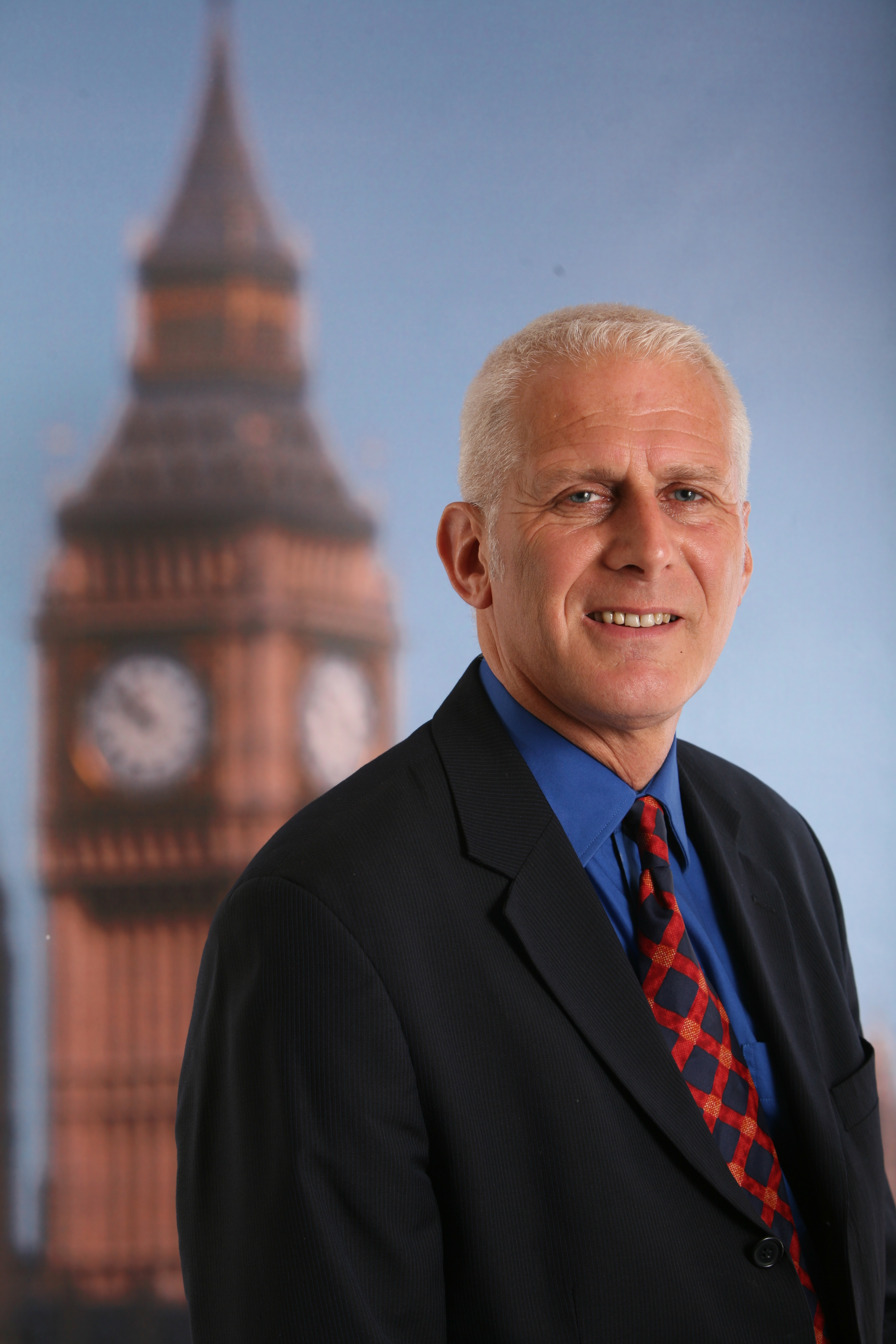 Gordon Marsden MP uploaded by his staff and donated to Wikipedia